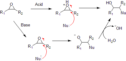 Epoxide Opening Mechanism